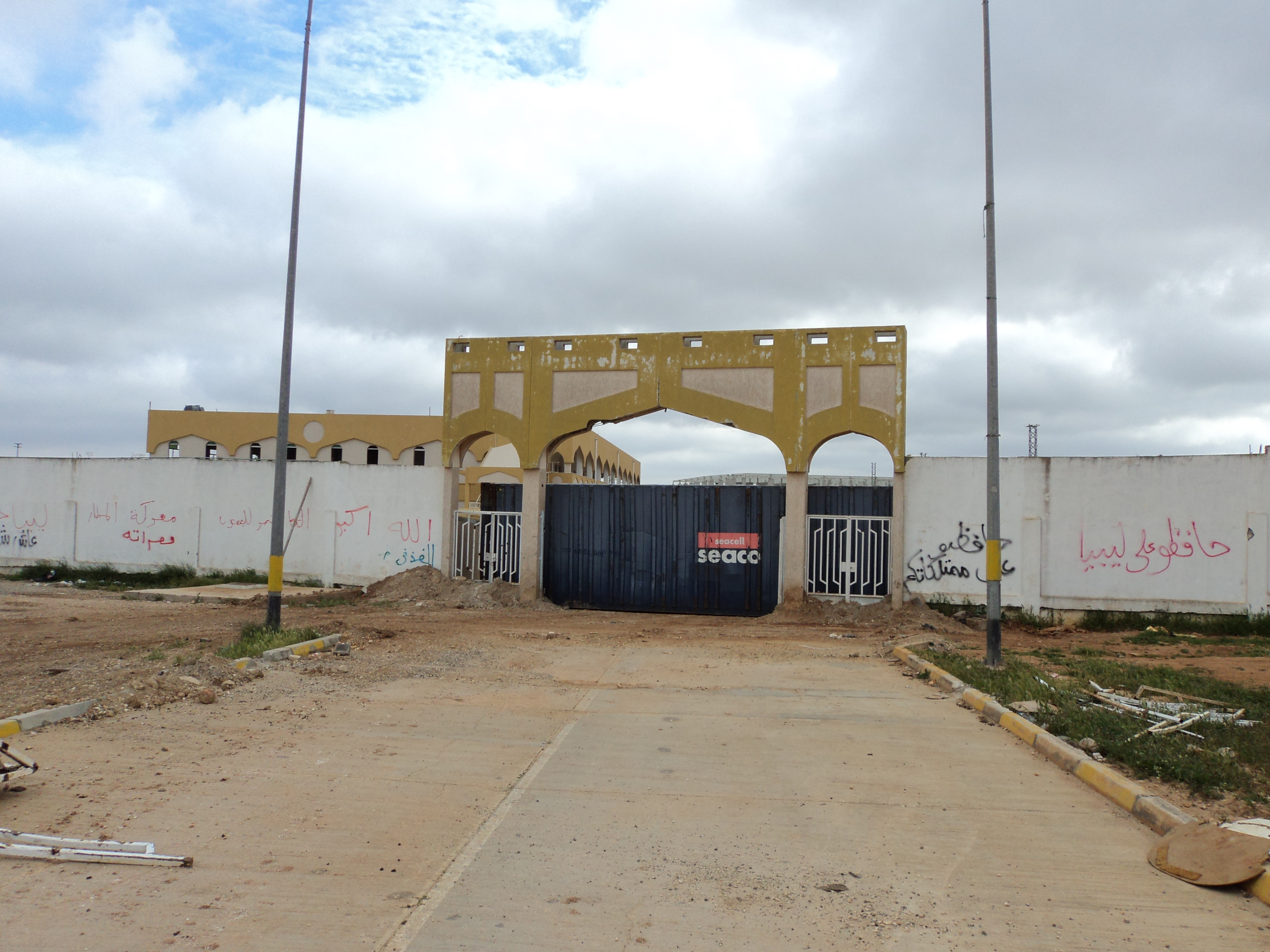 Gateway Airport, La Abraq after the battles between the rebels and al-Gaddafi.